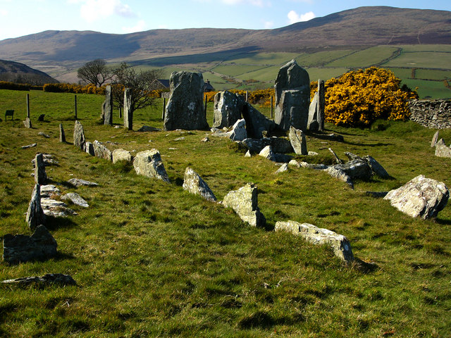 Cashtel yn Ard